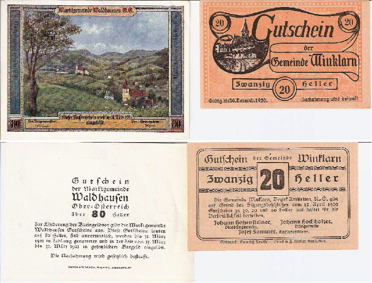 Scan of two Heller bills that I own.